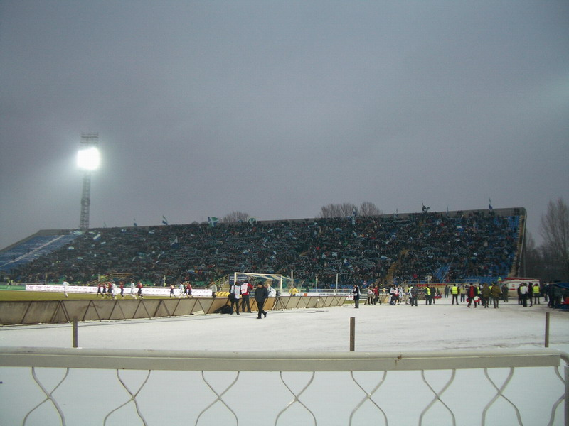 Metallurg Stadium, Samara. First match of season 2007